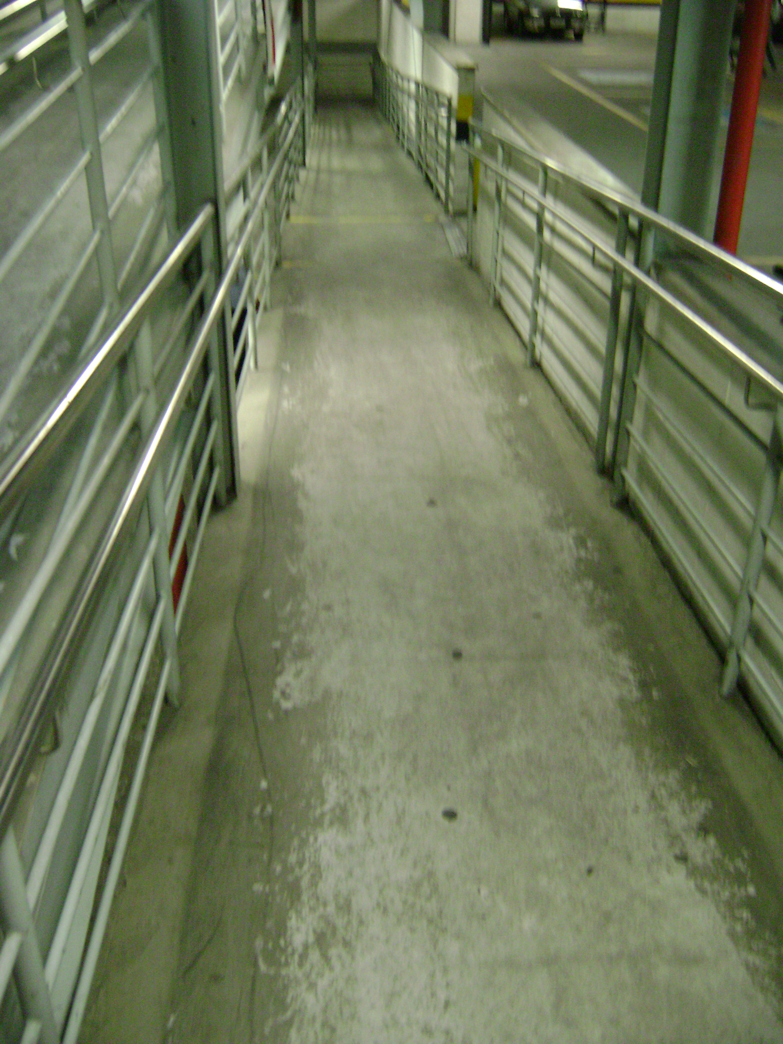 Corrimão em um corredor de supermercado.